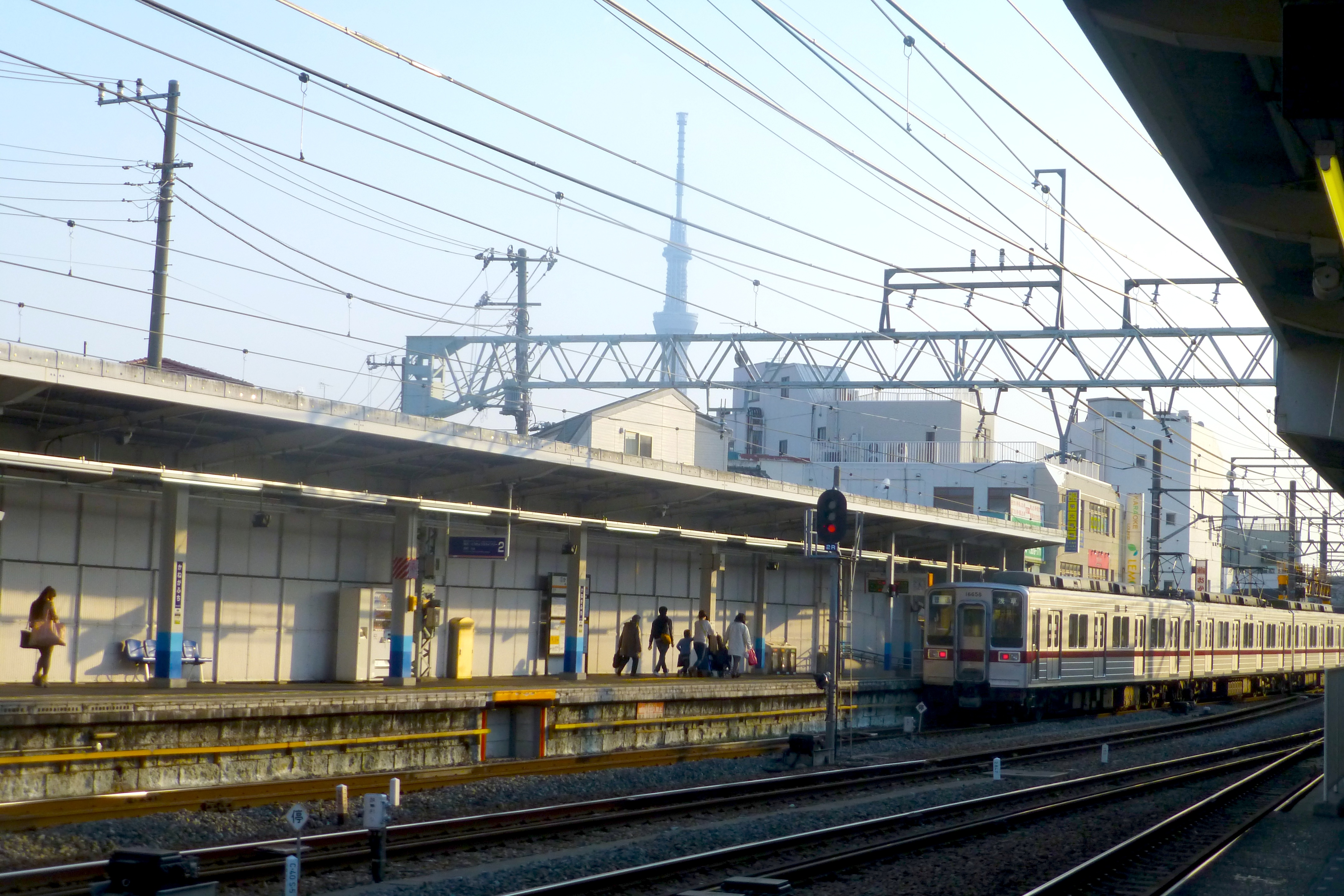 Kanegafuchi station (鐘ヶ淵駅 Kanegafuchi-eki) is a railway station on the Tobu Skytree Line in Sumida, Tokyo, Japan, operated by the private railway operator Tobu Railway. This is the station platform with Sky Tree visible in the background.